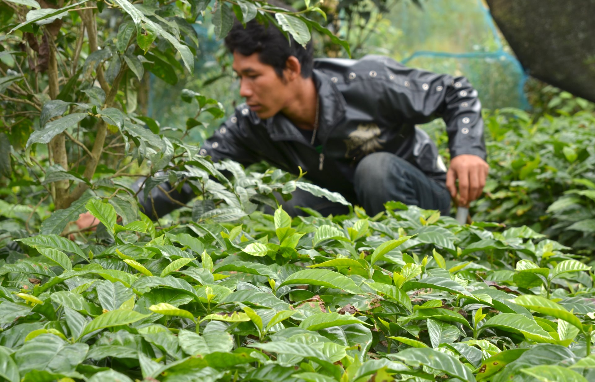 A coffee plant nursery in Maejantai village, Chiang Rai province, The coffee plants are of the Arabica Catuia variety.